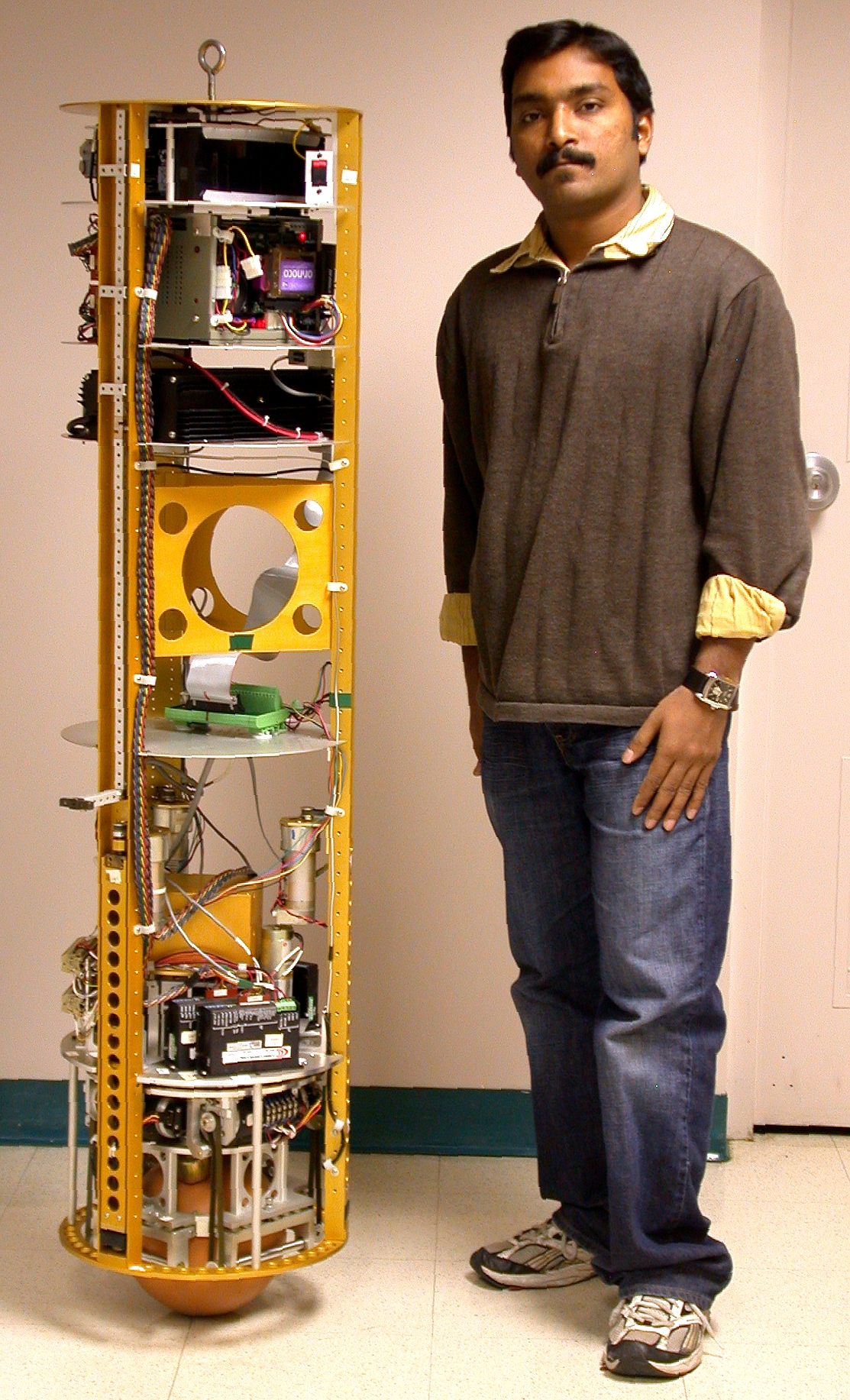 This picture shows CMU's Ballbot balancing next to Umashankar Nagarajan, a Robotics PhD Candidate at Carnegie Mellon University.